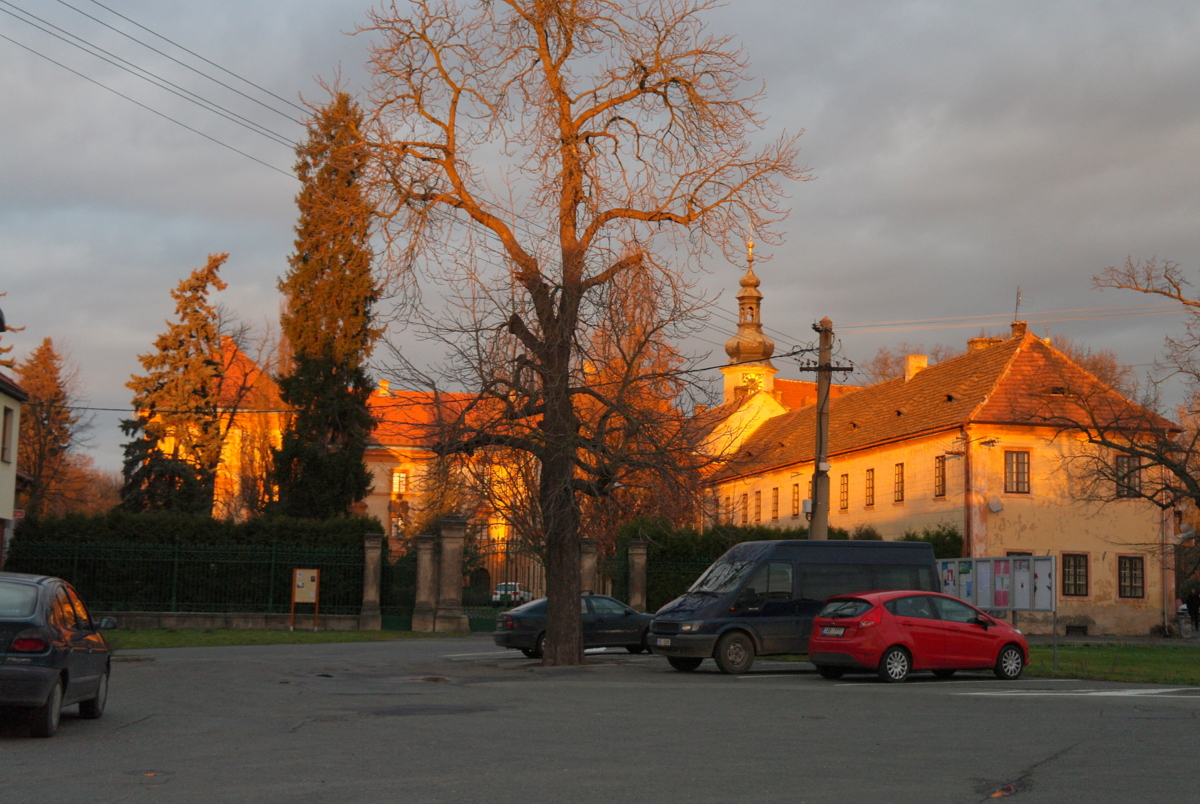 Chateau Obříství, 1, 2 Svatopluk Čech street Obříství.